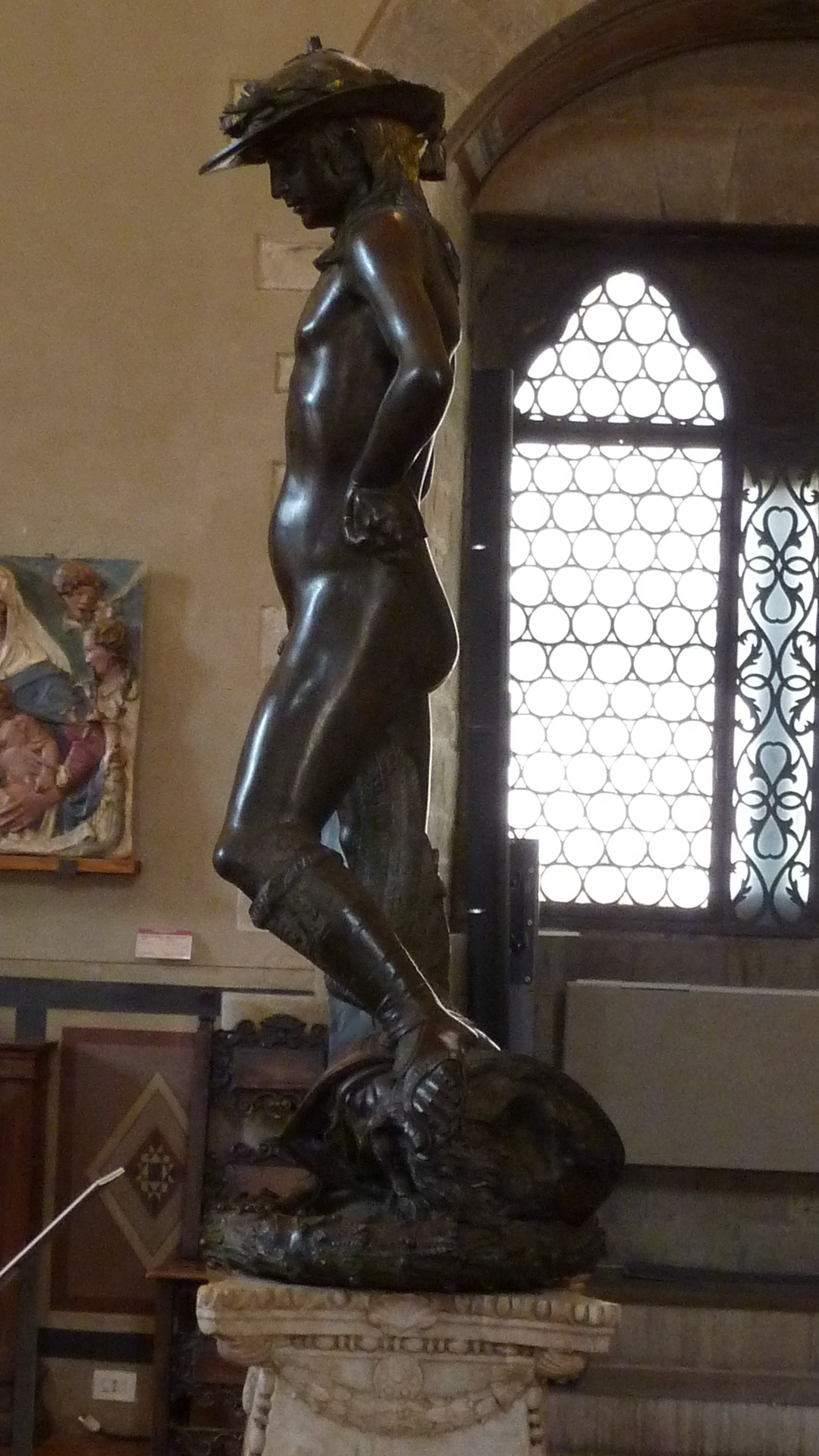 Donatello's bronze David photographed from the right side